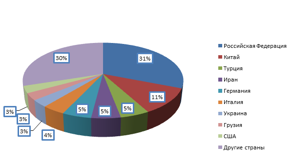 Geographic structure of import of goods to Armenia in 2016